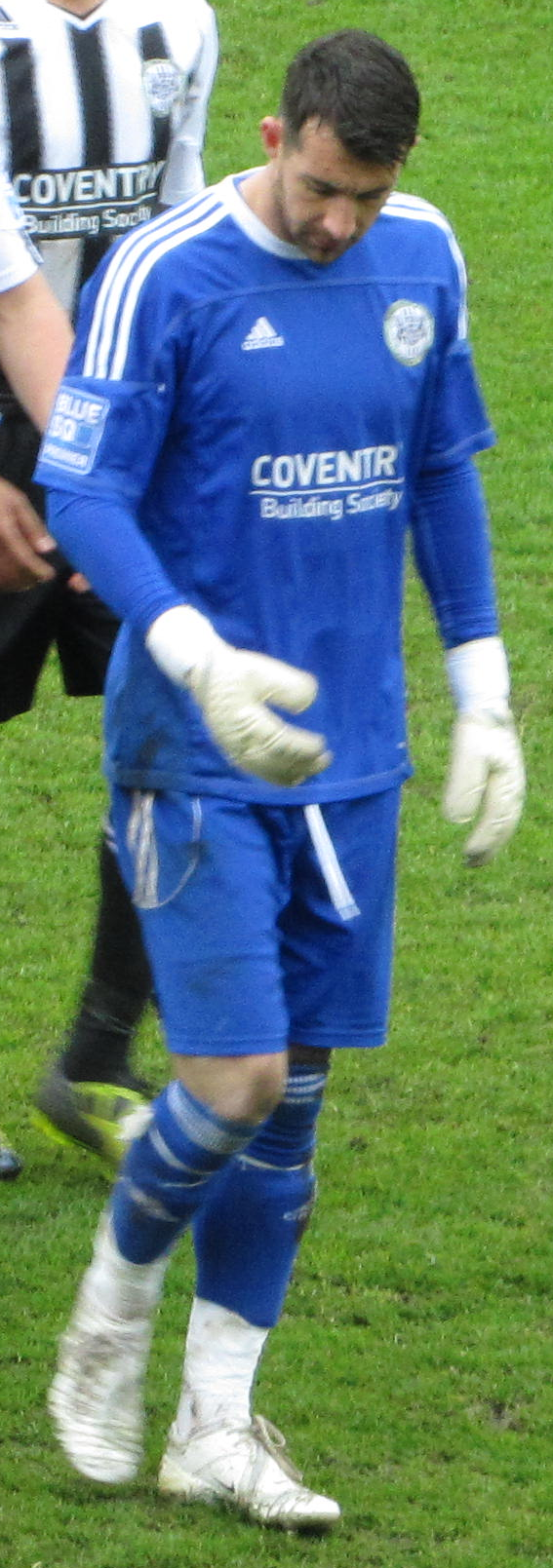 Sam Russell